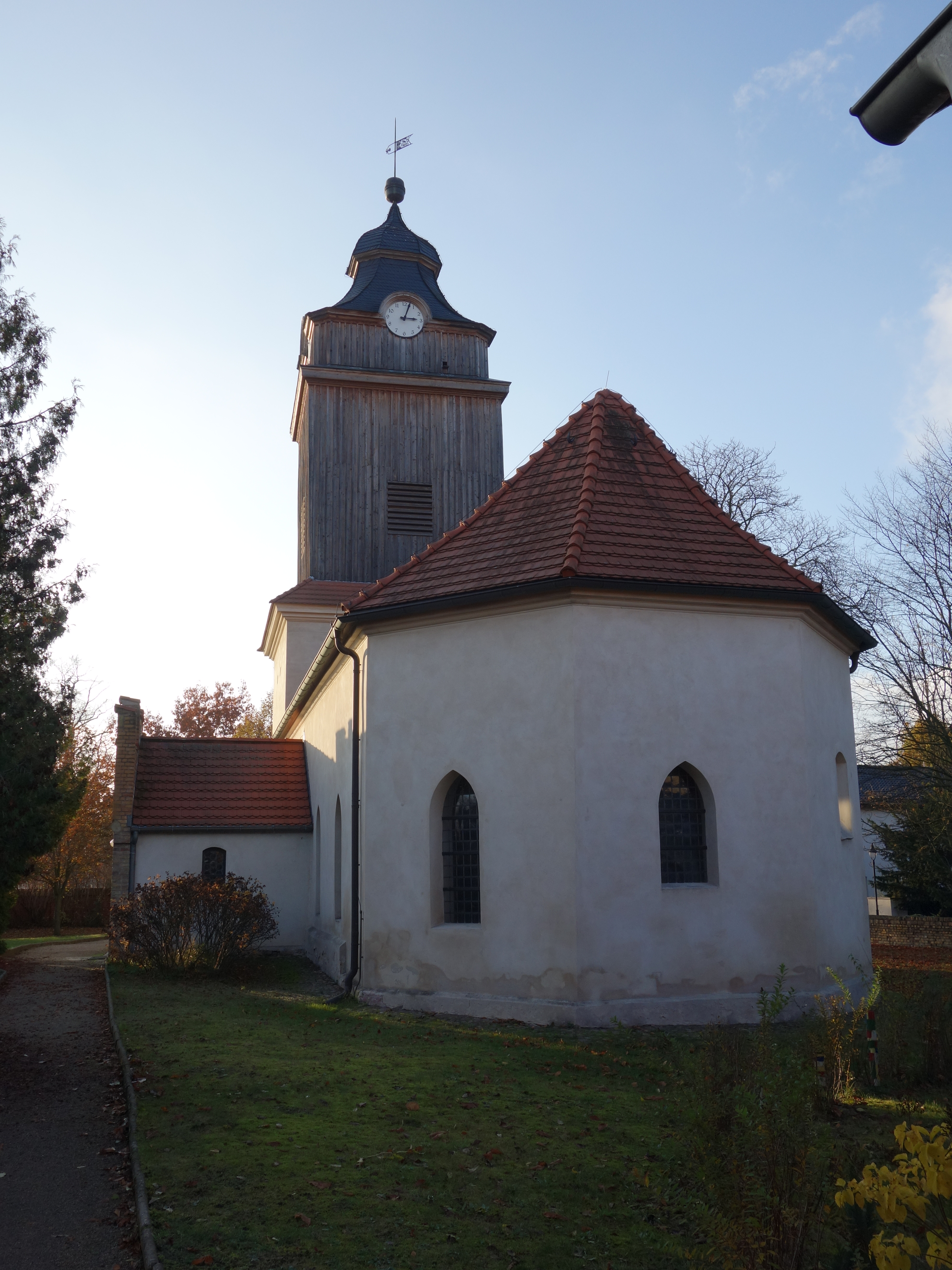 Eastern view of church in Basdorf, Wandlitz municipality, Barnim district, Brandenburg state, Germany